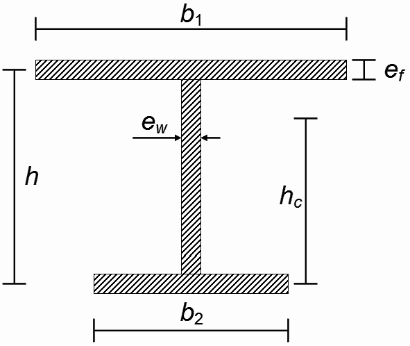 Assymmetric "Double T" cross section, with main dimensions.